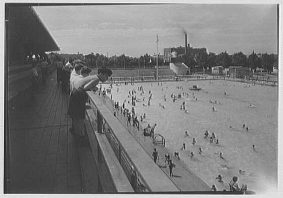 Title: Betsy Head Play Center, Hopkinson and Livonia Ave., Brooklyn, New York. Abstract/medium: Gottscho-Schleisner Collection (Library of Congress) Physical description: 1 negative